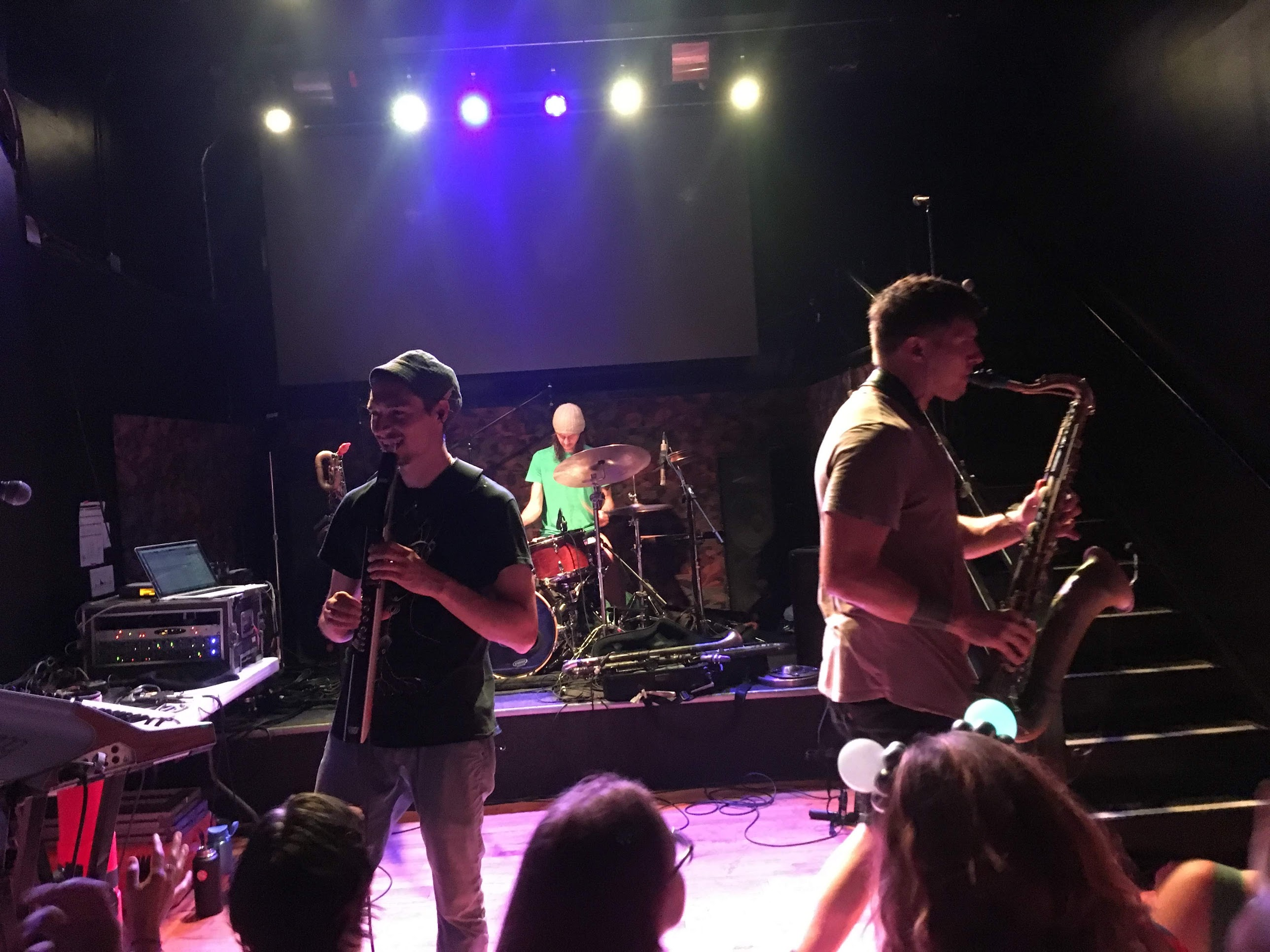 American nu-jazz band Moon Hooch in a 2019 Concert in Kansas City, MO, USA